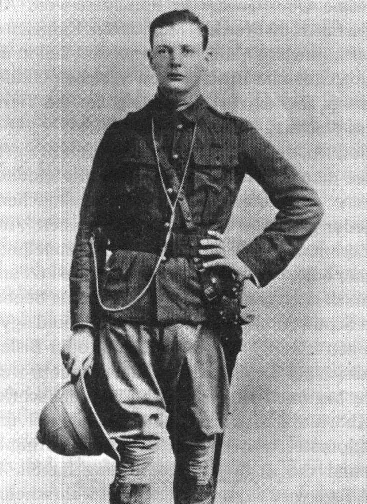 Winston Churchill in Cairo in 1899.